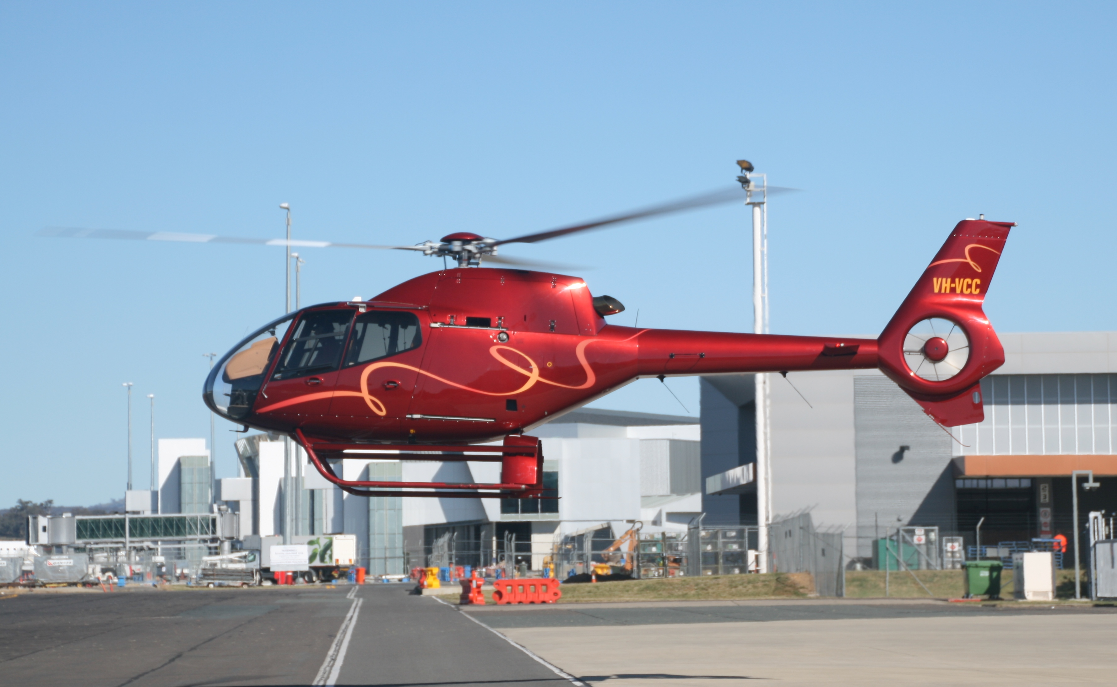 A Eurocopter EC120B helicopter registered VH-VCC hover-taxies prior to departing from Canberra Airport.